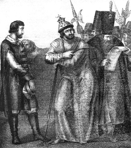 Ivan the Terrible listens to a letter from Andrew Kurbsky